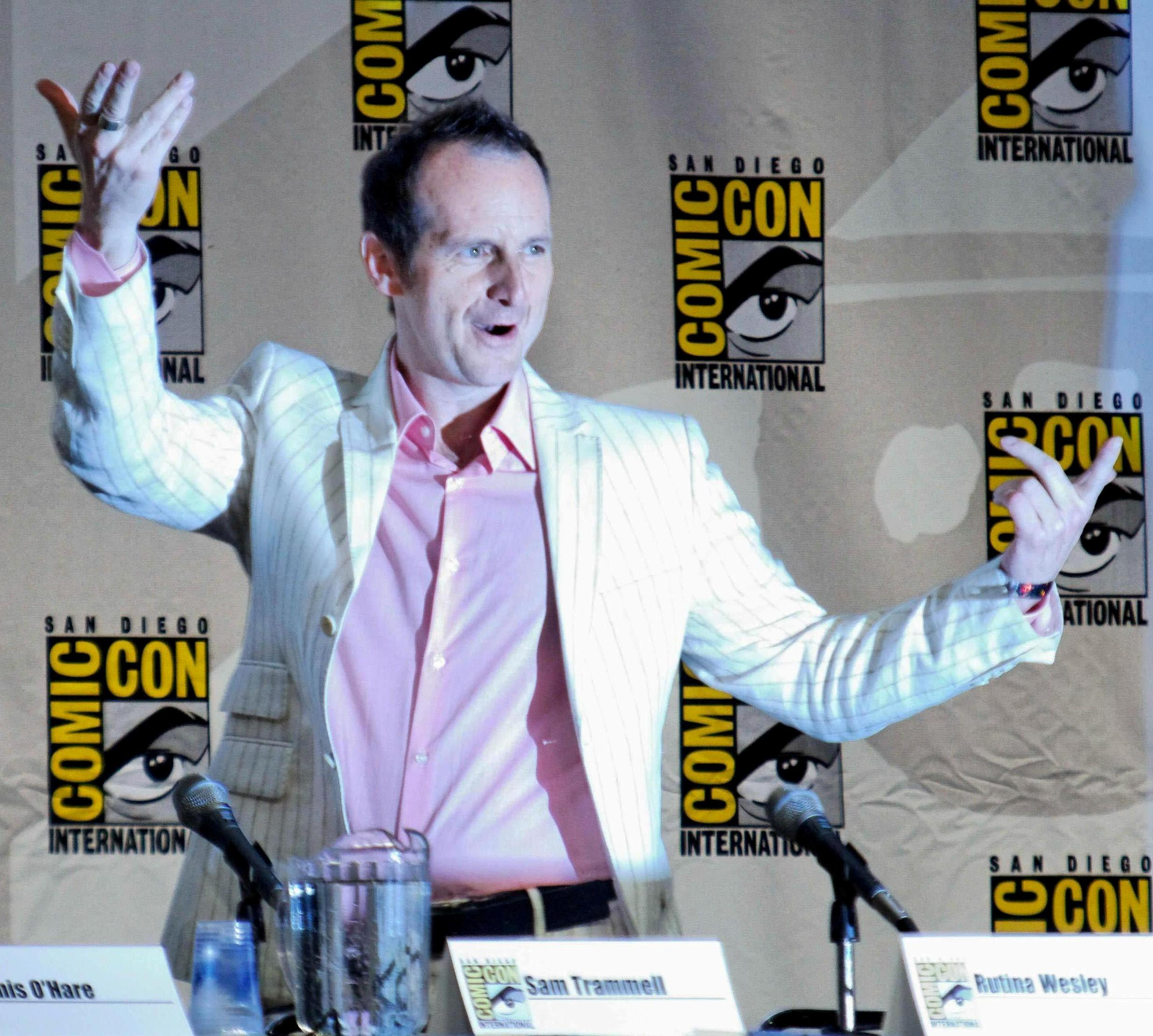 Denis O'Hare promoting True Blood at the San Diego Comic-Con International in San Diego, California on on July 23, 2010